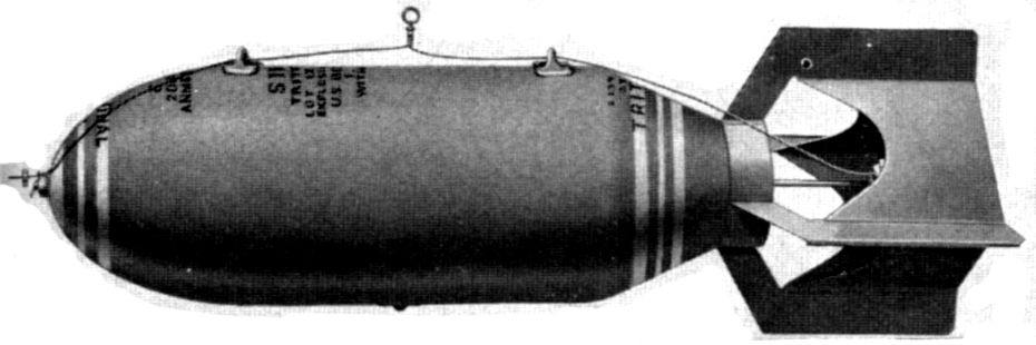 US BOMB, 2000 Lbs, GP (929 kg, containing 482 kg Amatol). It was replaced by AN-M66